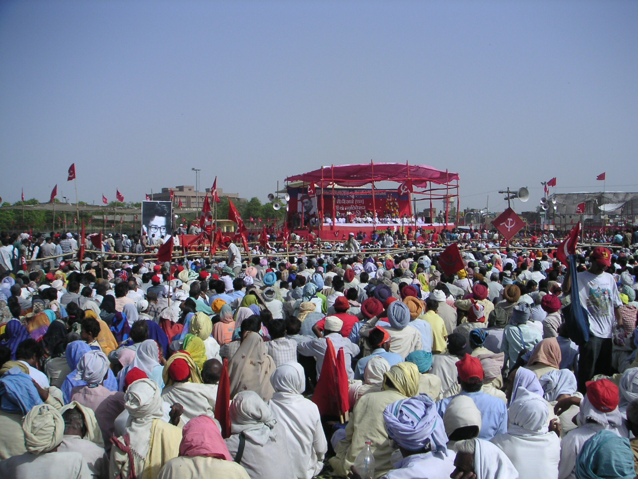 Open session of the 18th party congress of the Communist Party of India (Marxist), 2005. Delhi. Photo: Soman